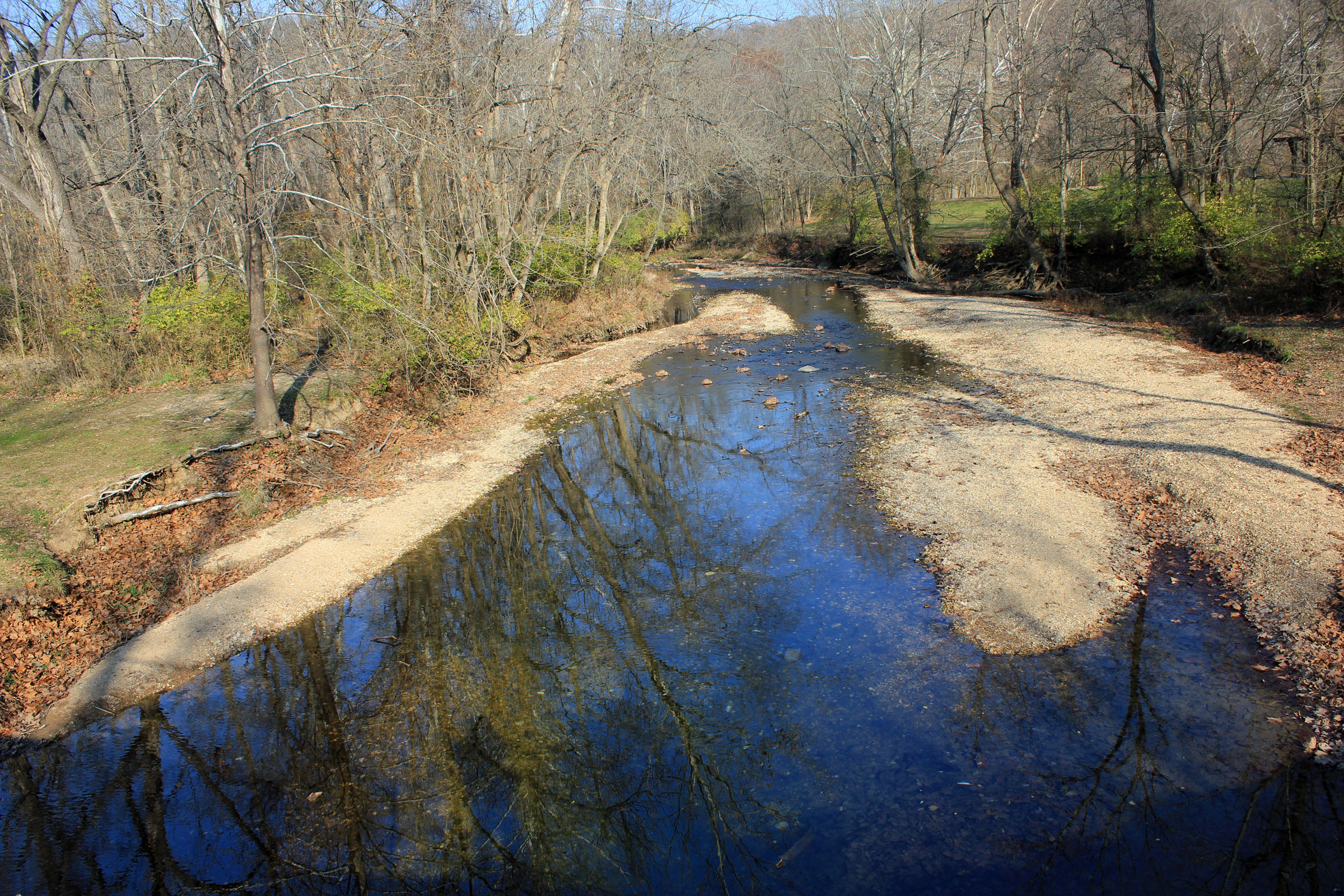 Scenes and landscapes from the bluffs and forests of Castlewood State Park Stream flowing into the river at Castlewood